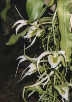 Aeranthes henrici, flowering plant